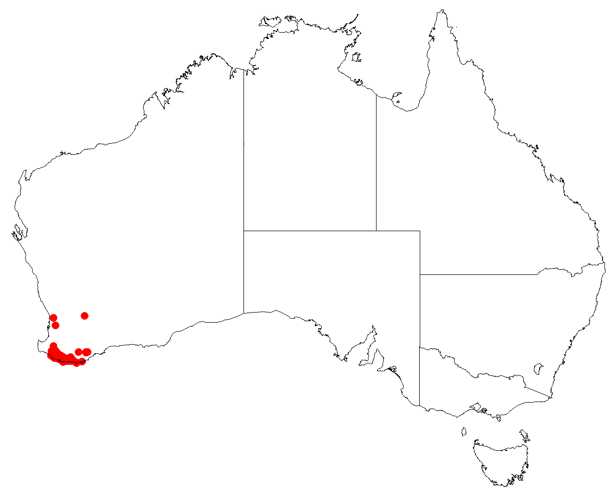 Allocasuarina decussata occurrence data from Australasian Virtual Herbarium download 4 July 2018